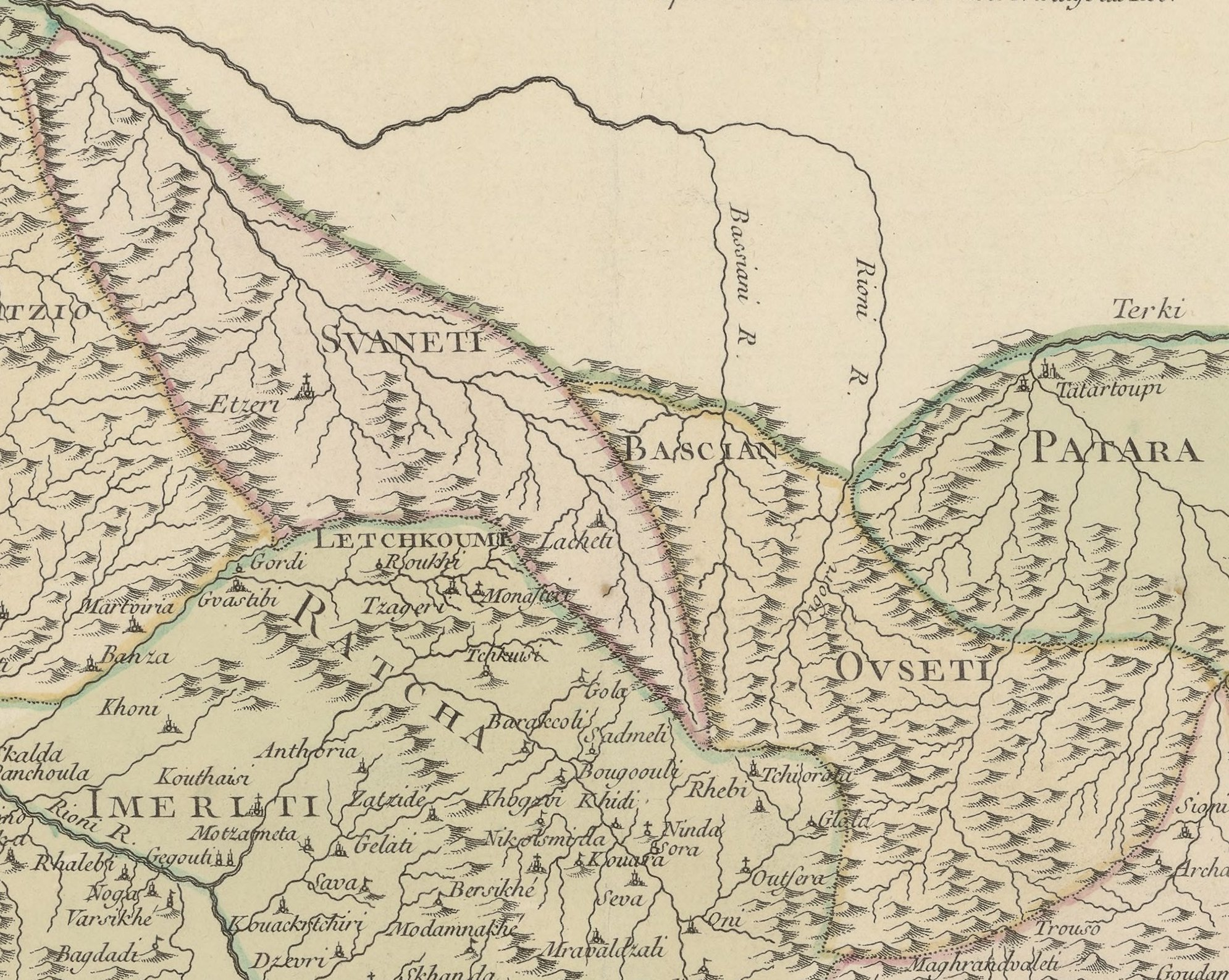 Carte générale de la Georgie et de l'Arménie / dessinée à Petersbourg en 1738 d'après les cartes, mémoires, mesures et observations des gens du pays ; traduit du géorgien en françois par le secrétaire du roi de Georgie ; publiée en 1766 par M. Joseph Nicolas Del'Isle.